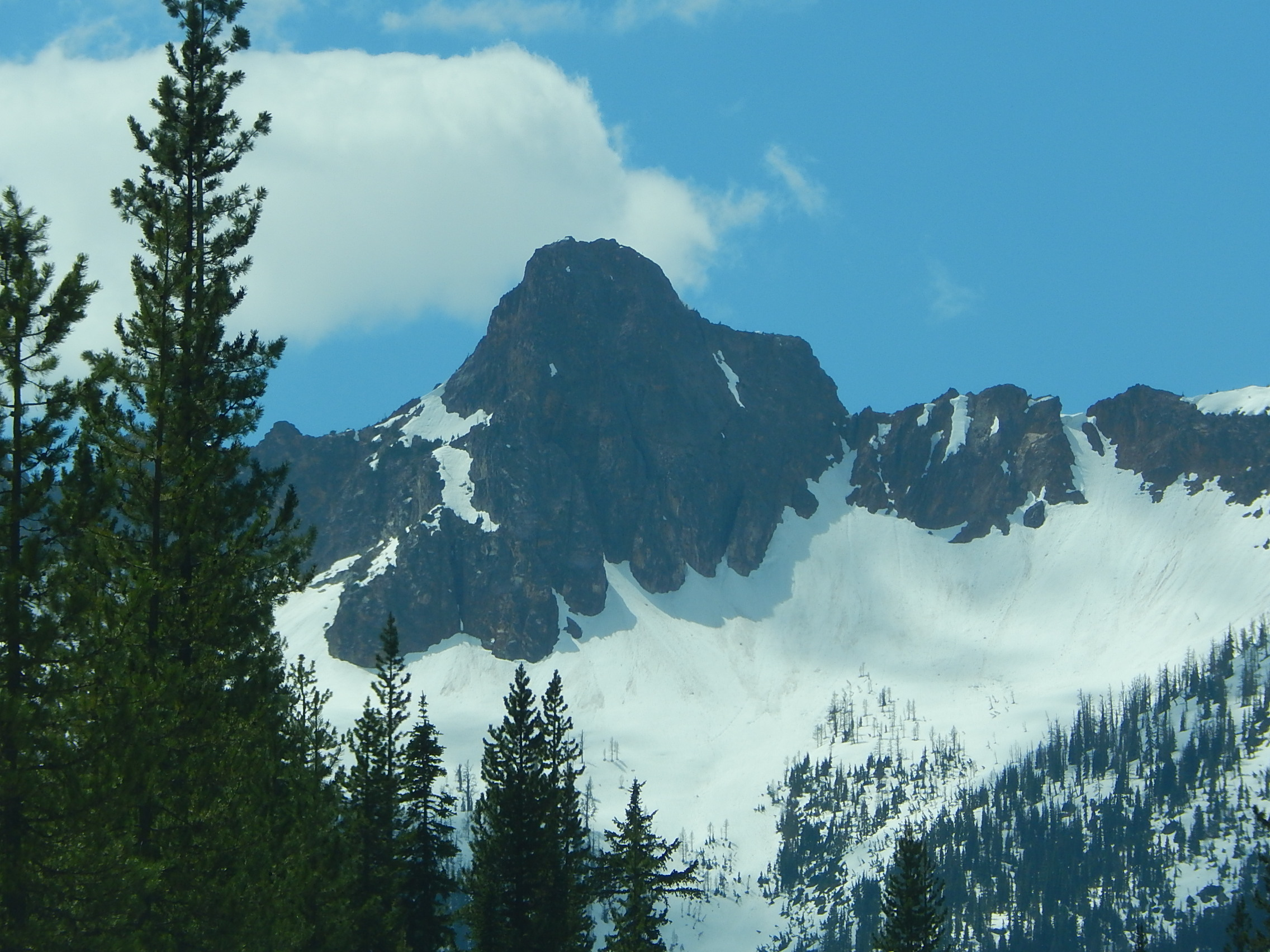 Molar Tooth seen from Cutthroat Lake Trailhead road. North Cascades of Washington state